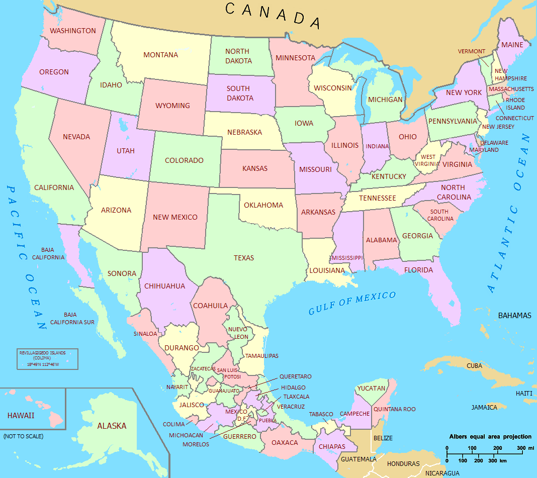 Map with US and Mexico states as a Union